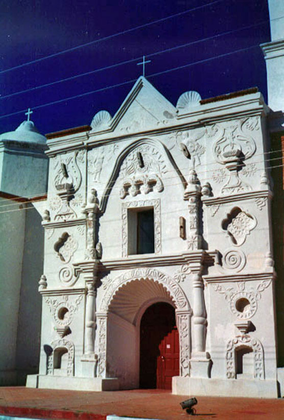 Mission San Pedro y San Pablo de Tubutama in the Sonoran Desert — in present day Tubutama, Sonora (state), México. Founded by Jesuit missionary Eusebio Kino in 1687. Official NPS photo taken from